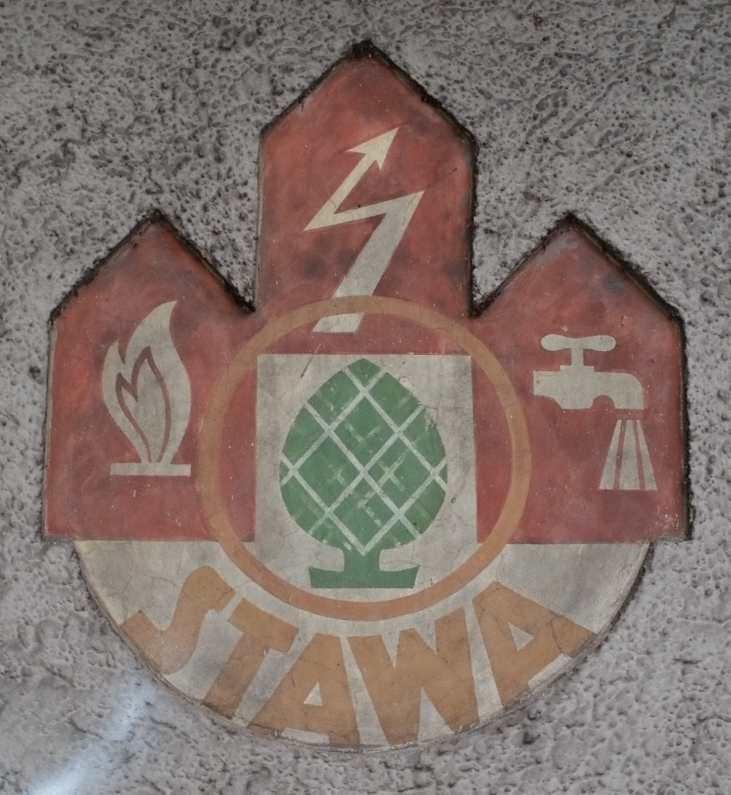 Old painted logo of Stadtwerke Augsburg, showing icons of the three basic utilities gas, electricity and water. In the middle the Zirbelnuss.